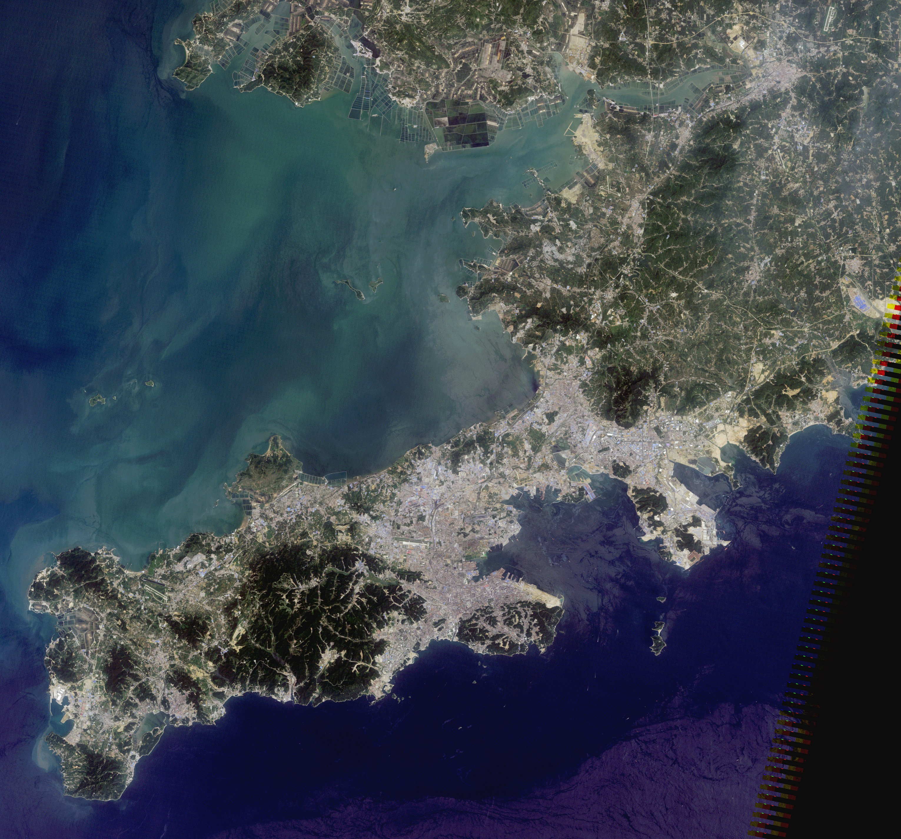 Dalian, China, city and vicinities satellite image, LandSat-5, 2010-08-03, near natural colors, resolution 30 m image ID LT51200332010215IKR00